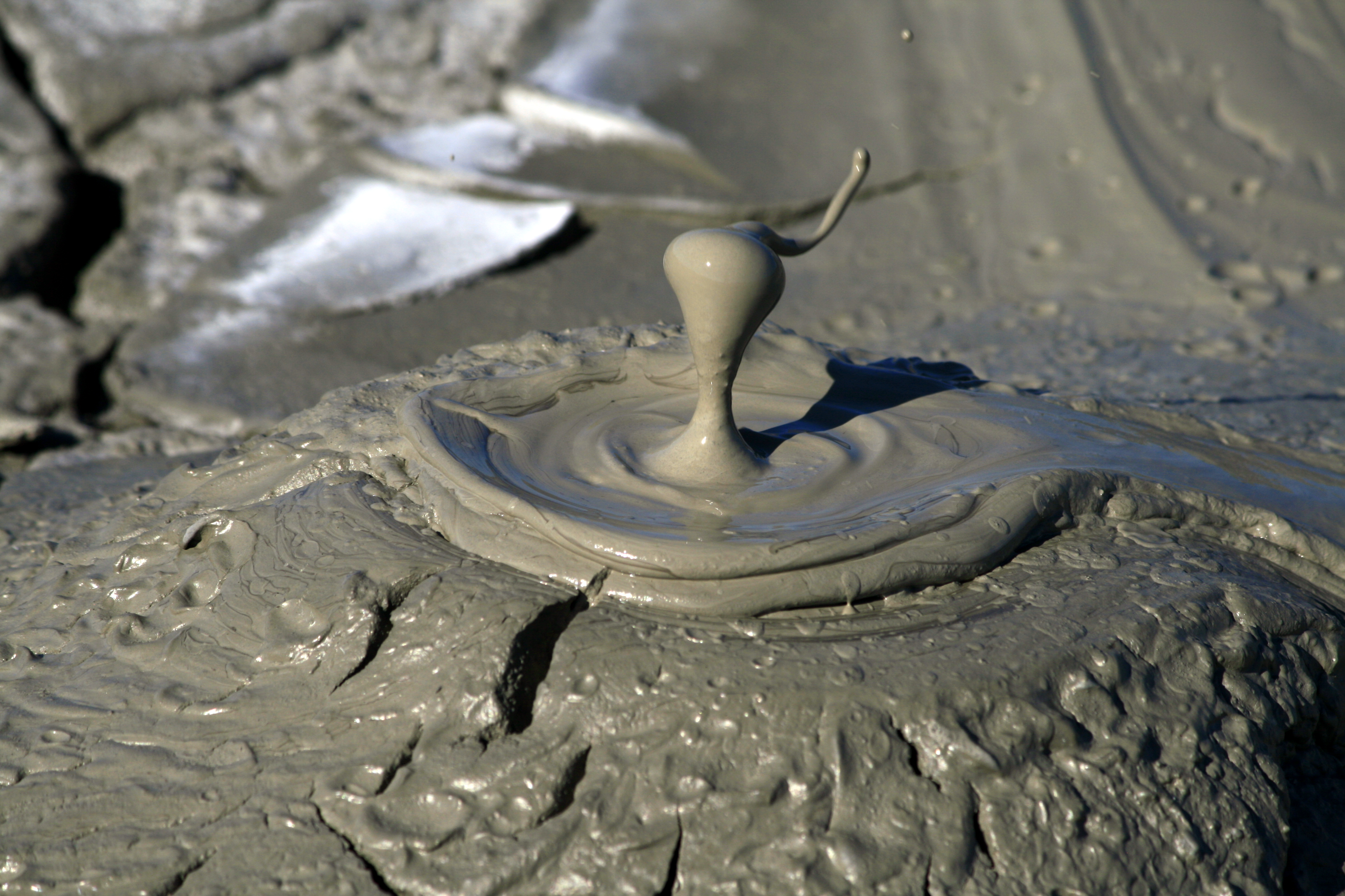 Mud volcanoes